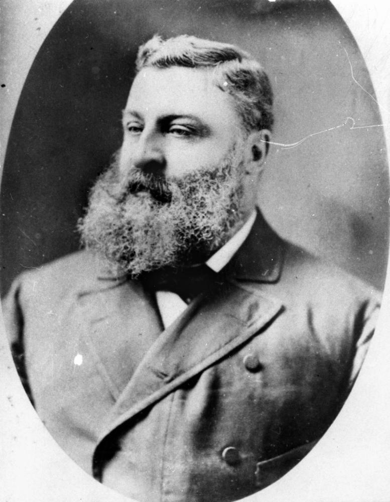 George Harris MLC, Queensland, ca. 1870. Merchant. Born in 1831 in London. Married Jane Thorn at Ipswich on 13 October 1860. Died 28 March 1891 in Brisbane. Arrived in Brisbane 1848 with brother John and established a large wool shipping and importing firm. Large investment cotton plant at Harrisville near Ipswich. 1876 insolvent. Consul for the United States in Queensland. MLC from 23 May 1860 till 31 August 1876. (Description supplied with photograph).